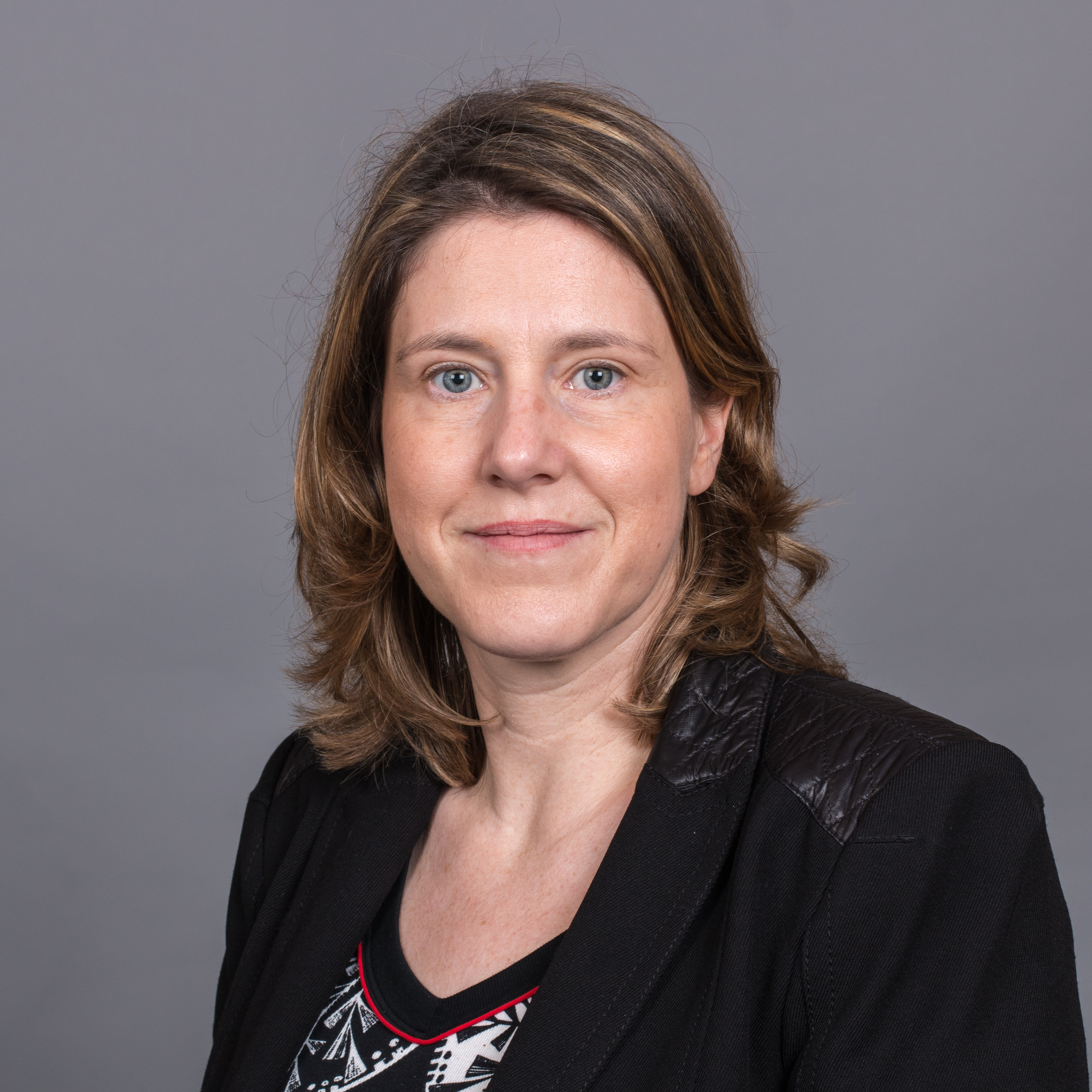 Simone Huth-Haage, CDU, member of the Landtag of Rhineland-Palatinate